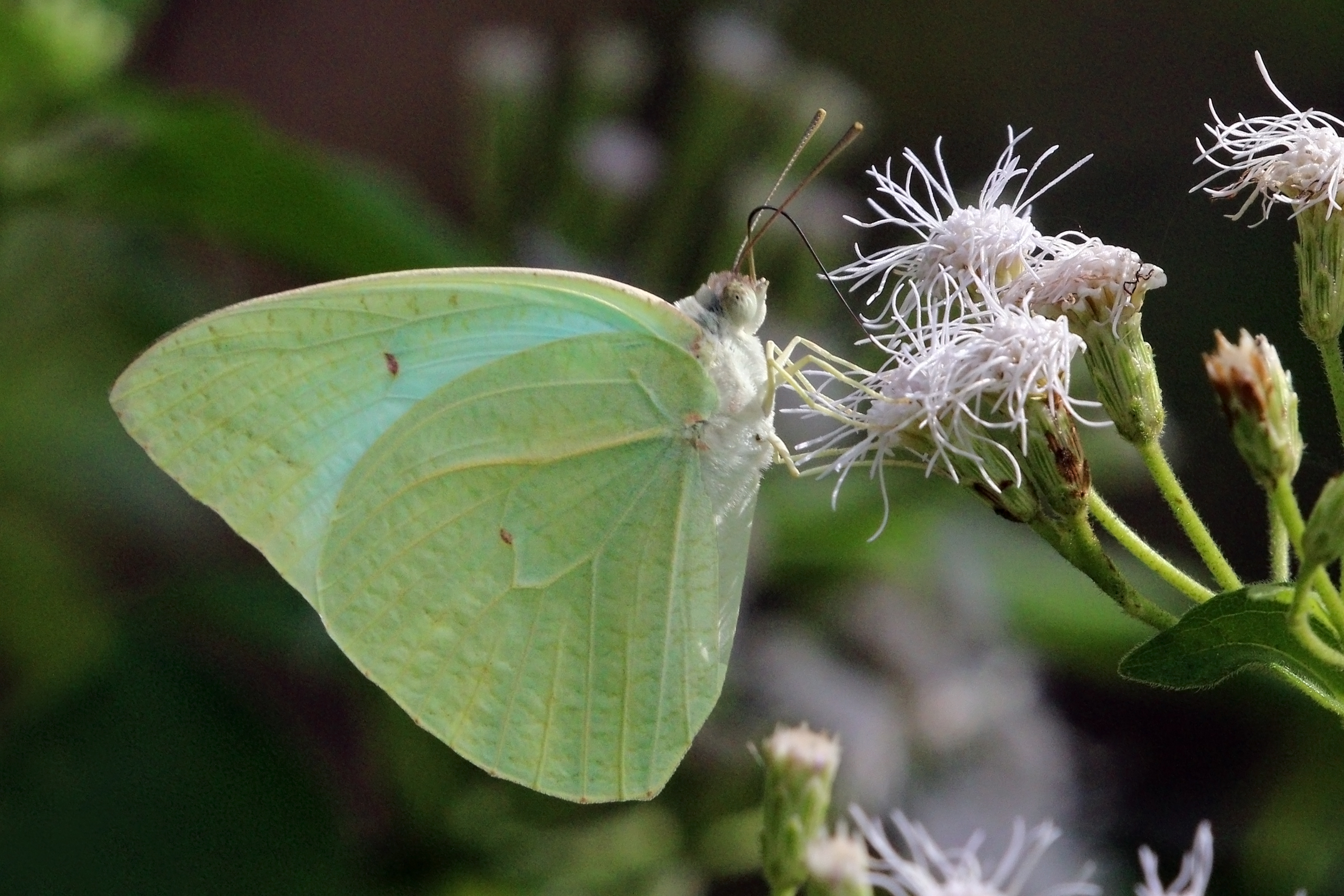 African migrant (Catopsilia florella) male, Ghana